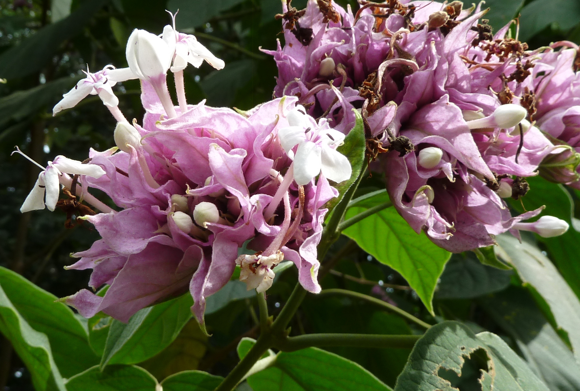 Clerodendrum macrostegium at Ho'omaluhia Botanical Garden in Kane'ohe, HI, USA